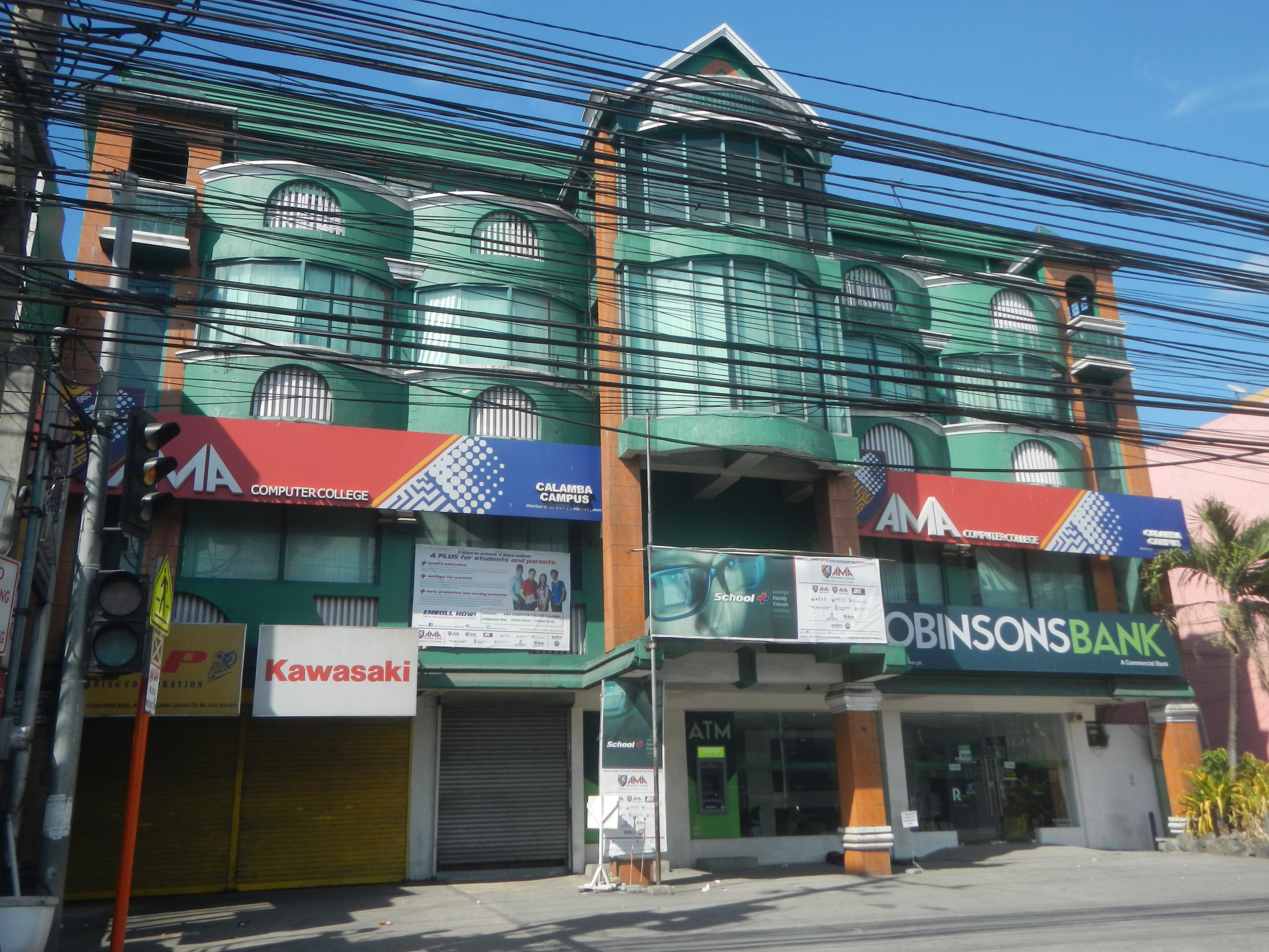 AMA Computer University AMA Computer College Calamba Campus Social Security System (Philippines) Social Security System Calamba, Laguna Branch Our Lady of Fatima Parish Church (Lawa Road, Lawa, Calamba City) Solememnly Blessed September 4, 1993 Vicariate of Saint John the Baptist Roman Catholic Diocese of San Pablo National Highway (Calamba Poblacion-Mayapa) of Maharlika Highway (Calamba City section) Pan-Philippine Highway; in Barangays Parian, Calamba, Parian 14°12'53"N 121°8'55"E Lawa 14°12'20"N 121°8'39"E Calamba, Laguna from Calamba Poblacion (Note: Judge Florentino Floro, the owner, to repeat, Donor Florentino Floro of all these photos hereby donate gratuitously, freely and unconditionally Judge Floro all these photos to and for Wikimedia Commons, exclusively, for public use of the public domain, and again without any condition whatsoever).